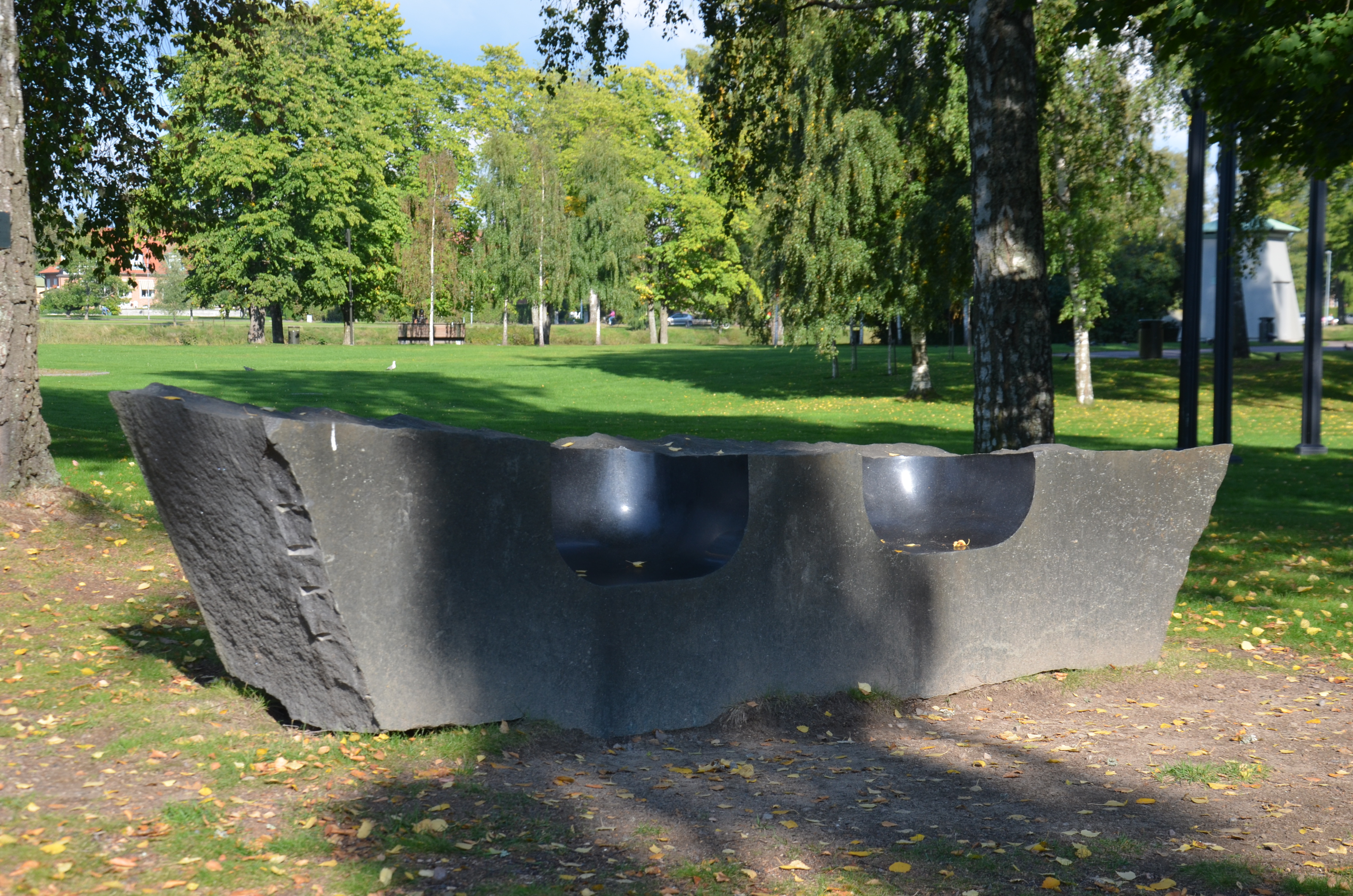 Eric Therets Le Banc Noir i Sandgrundsparken i Karlstad